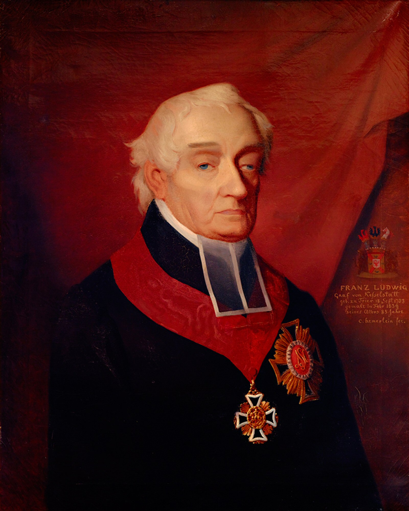 Franz von Kesselstatt (+ 1841), Mainz, Gemälde von Carl Johann Nepomuk Hemerlein (1801-1884)